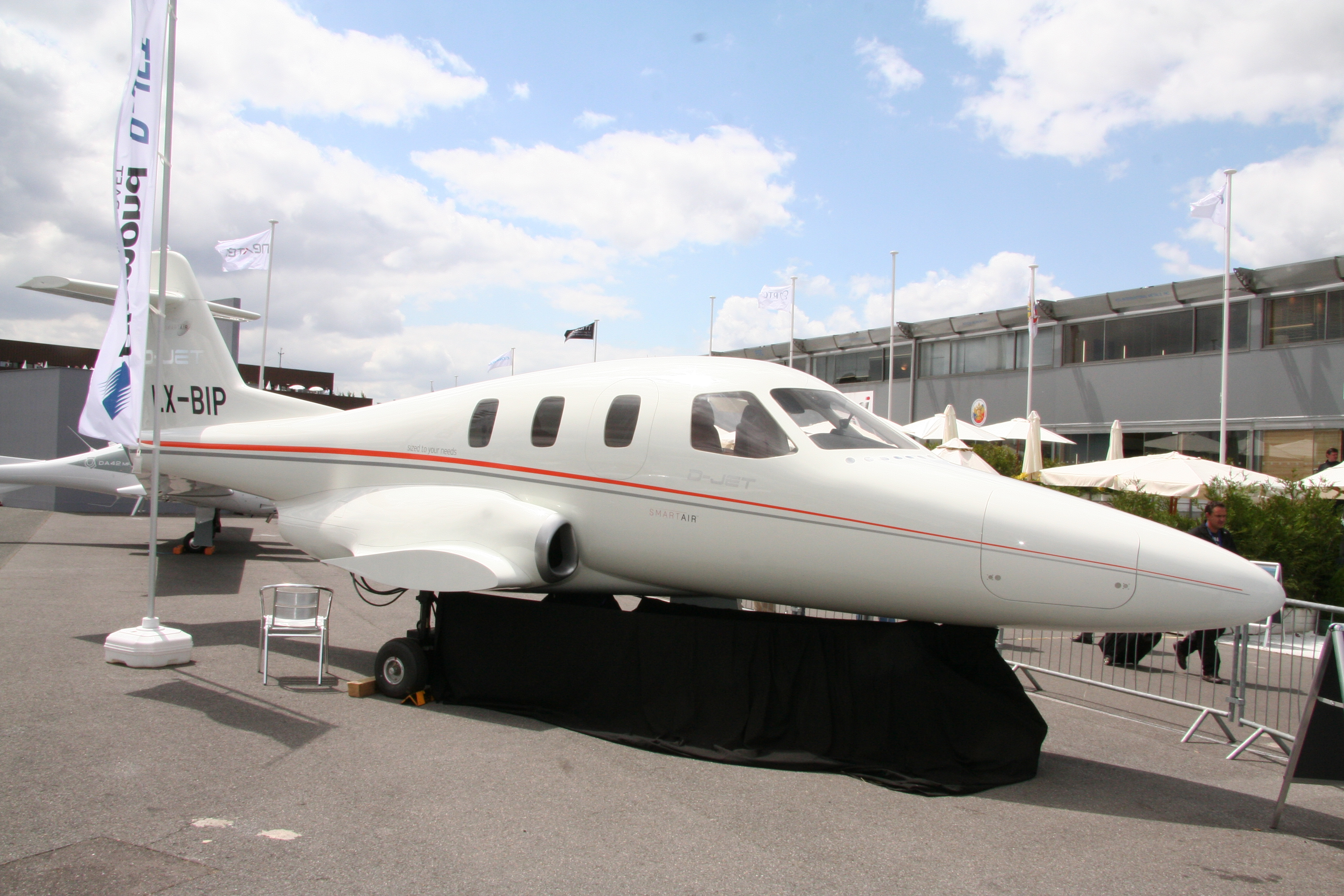 Diamond D-Jet - Paris Air Show 2009